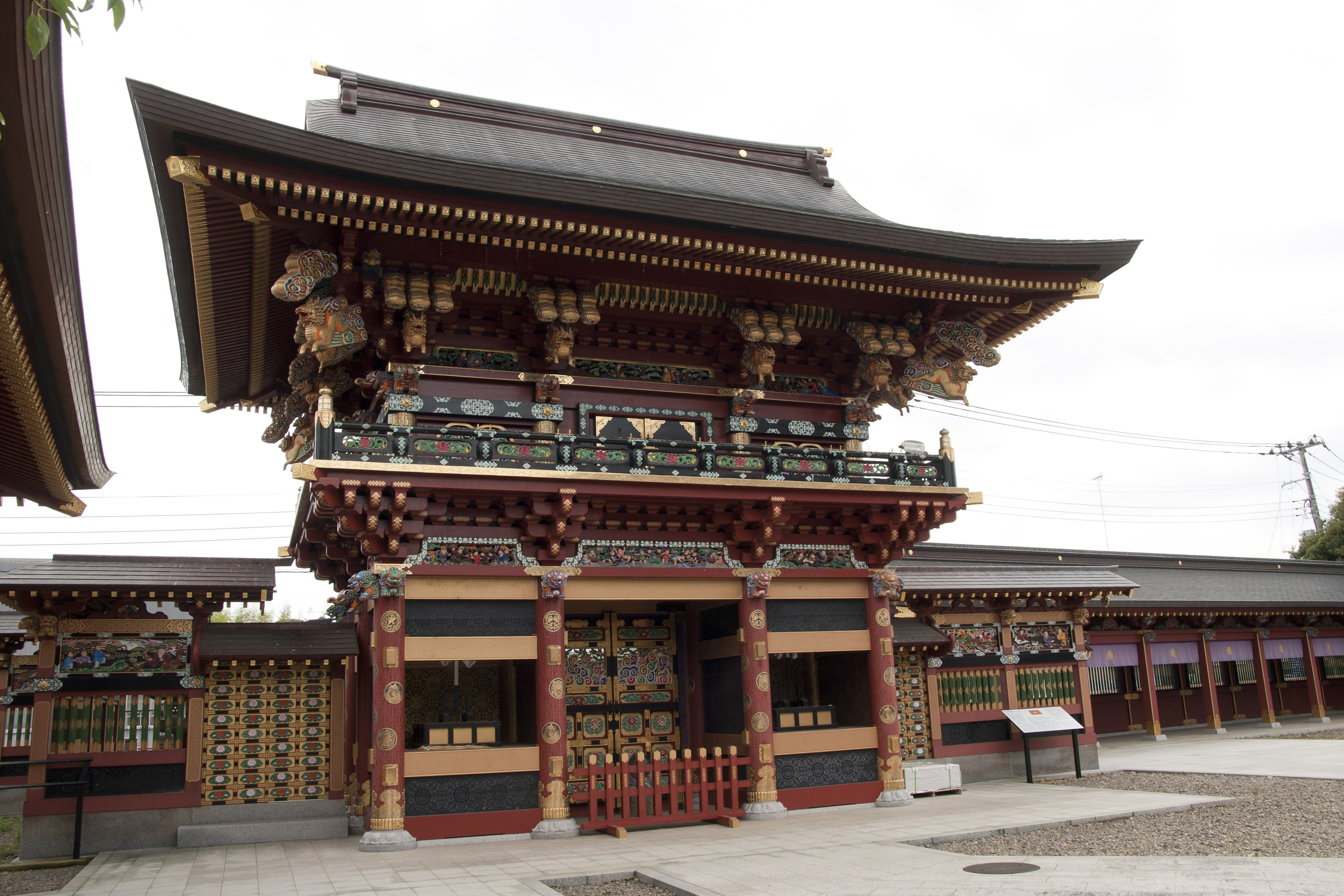 Ōsugi Shrine, Inashiki City, Ibaraki Pref., Japan